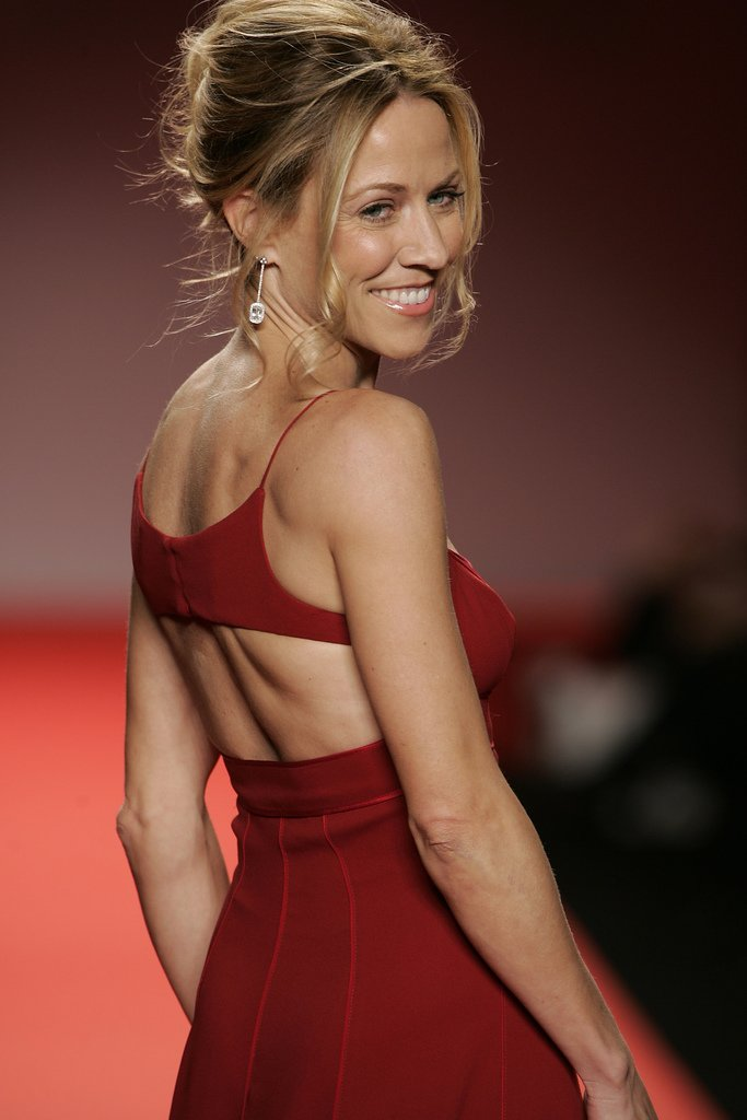 Sheryl Crow - Red Dress Collection (Heart Truth) - 2005